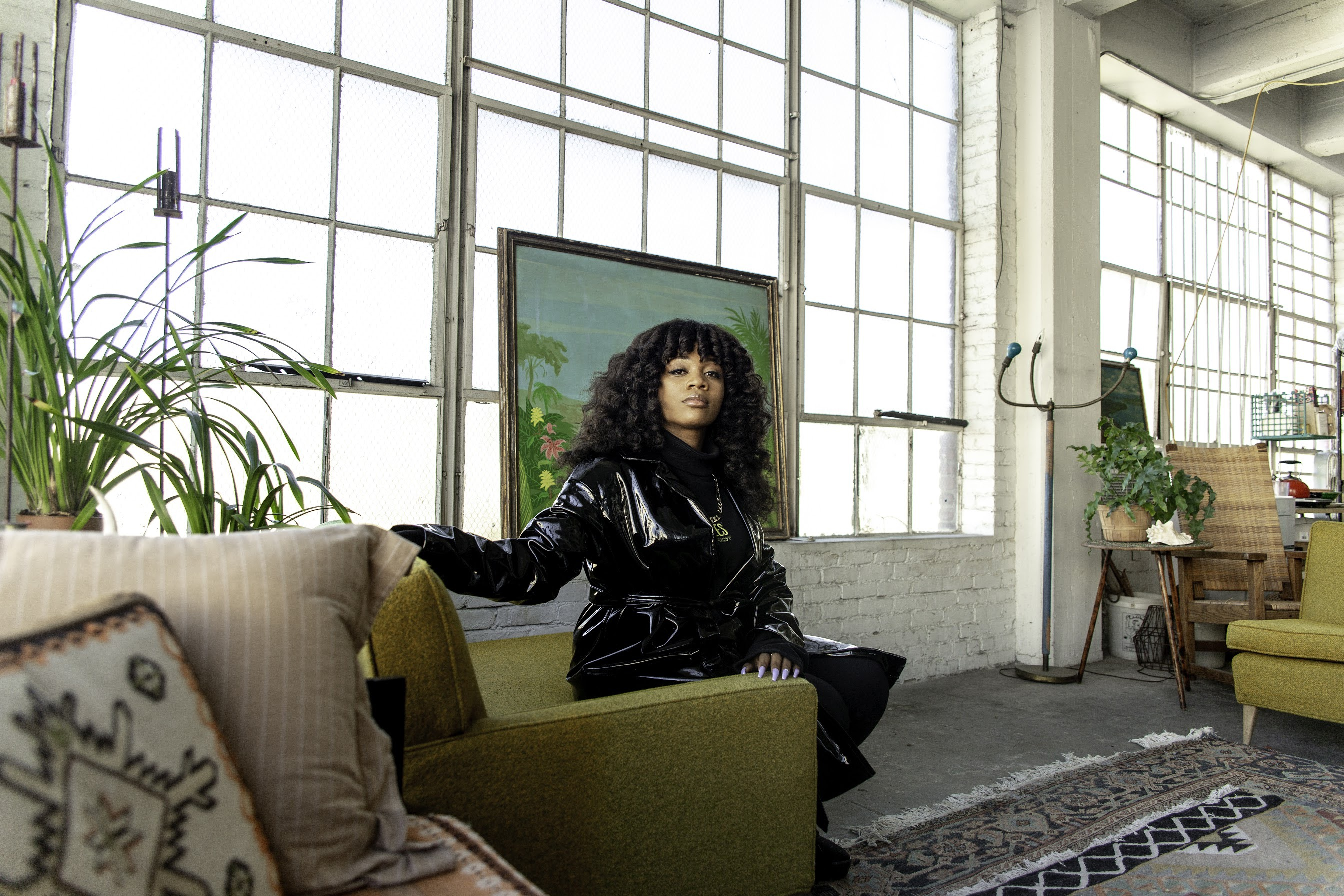 Shavone Charles poses for Forbes Interview with Goldie Chan